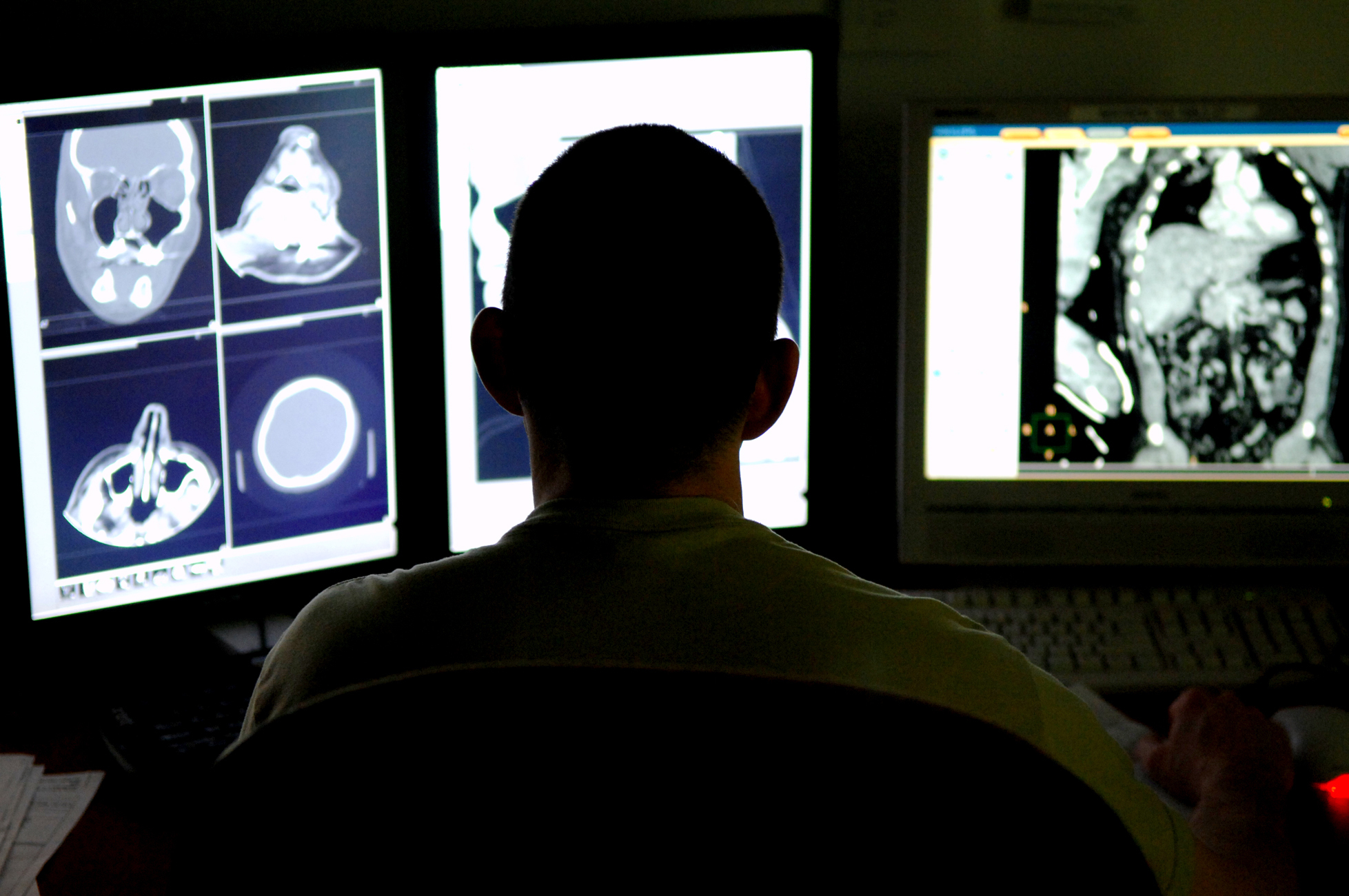 Maj. Michael Matchette, 332nd Expeditionary Medical Support Squadron radiologist, reviews computed tomography scans from a trauma patient to determine the severity of the injuries at the Air Force Theater Hospital, Feb. 20. The CT scan process goes directly from the scanning machine to the computer, which allows doctors to diagnose medical problems faster. Matchette is deployed from Lackland Air Force Base, Texas.